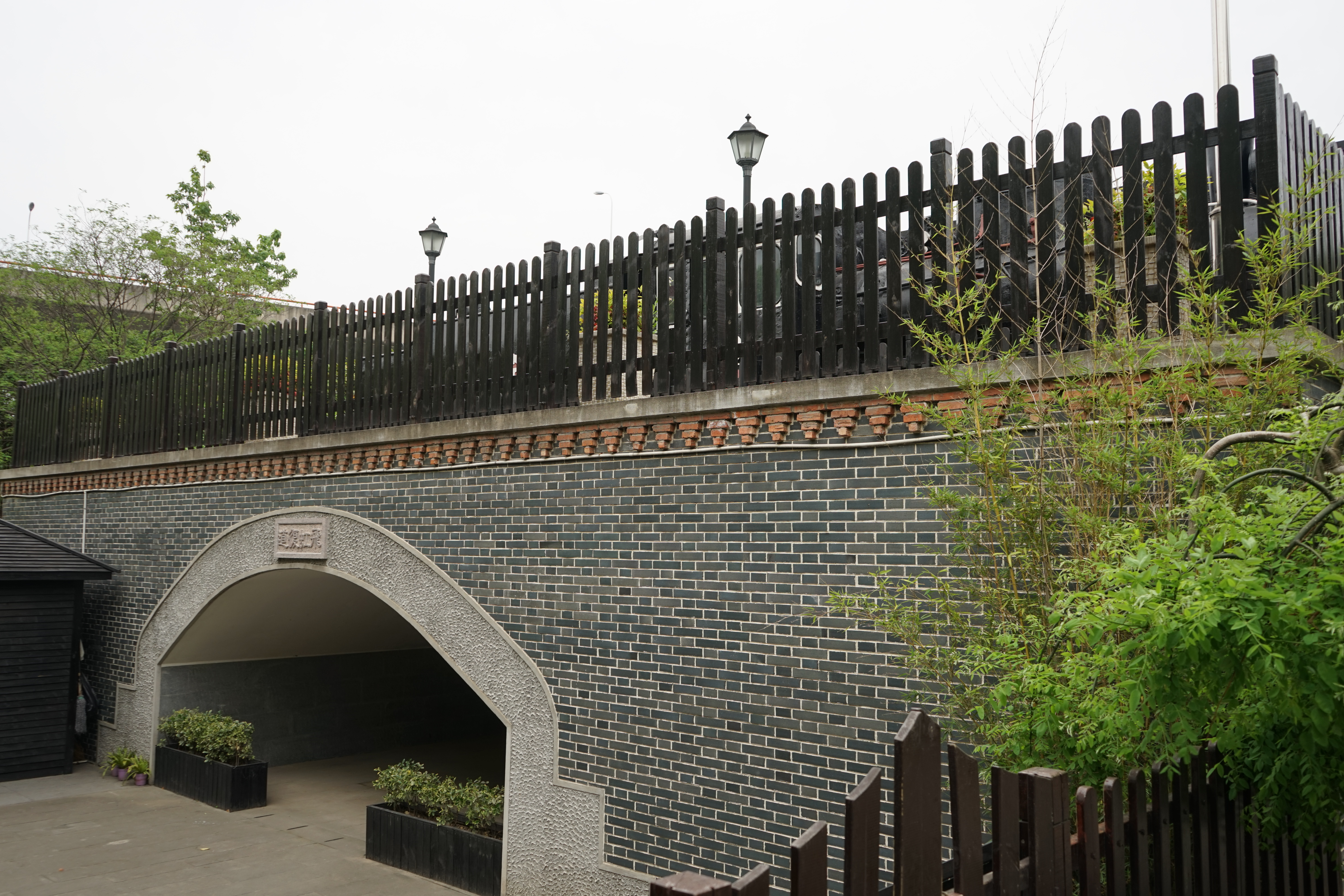 Old site of Chuansha station, Shanghai-Chuansha Railway.